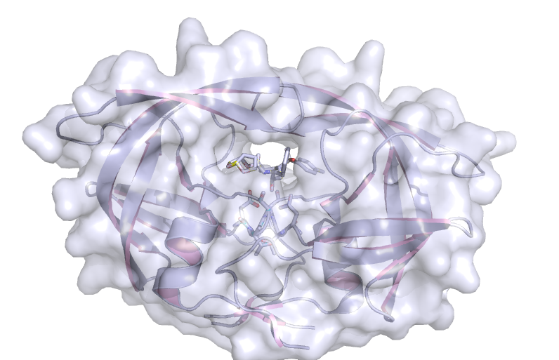 HIV protease with inhibitor Darunavir from PDB entry 4LL3